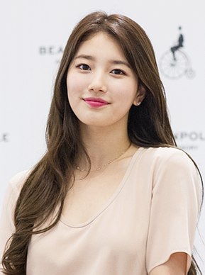 Suzy at a fan meeting for Bean Pole, 15 July 2014